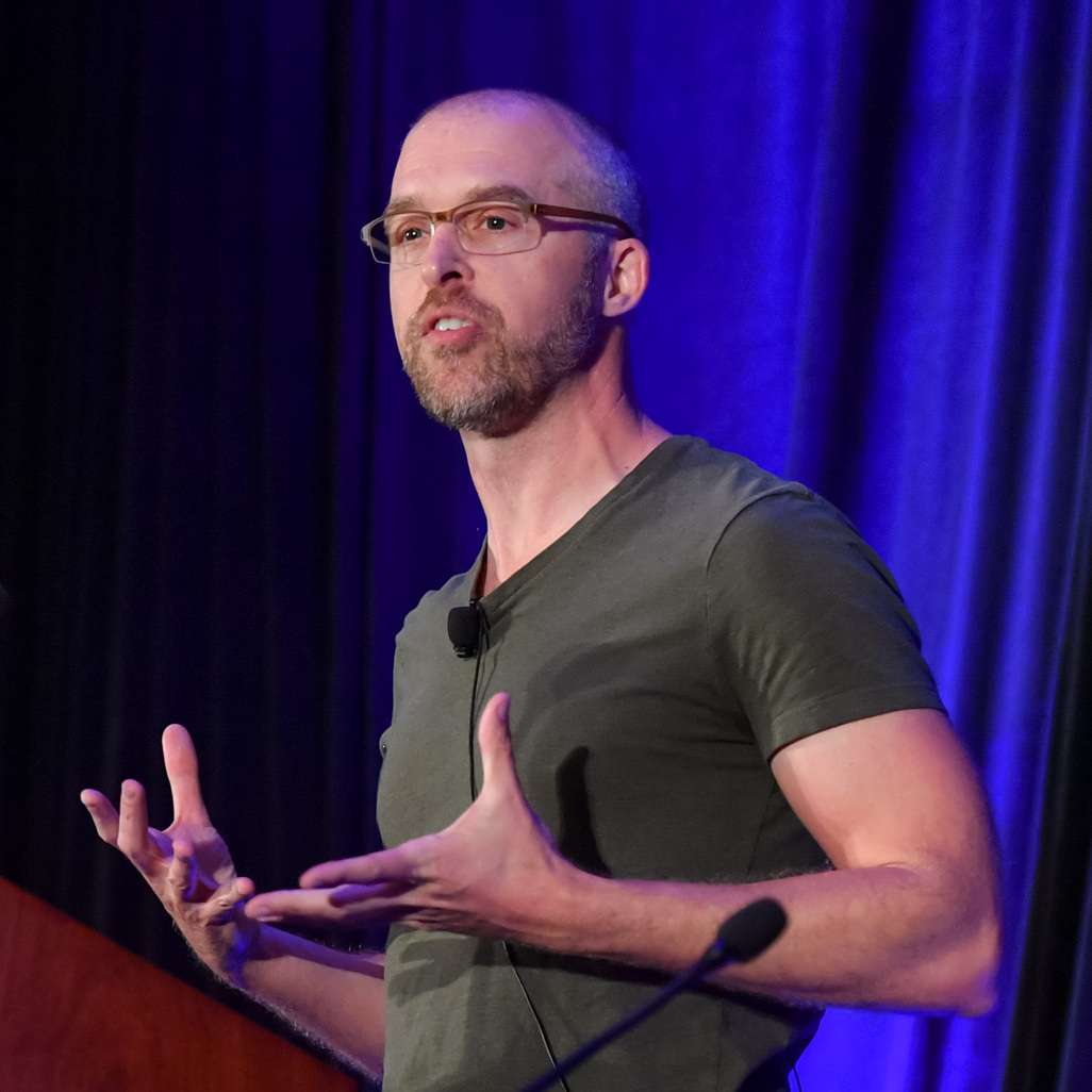 Charlie Cleveland of Unknown Worlds Entertainment at the Game Developers Conference 2019